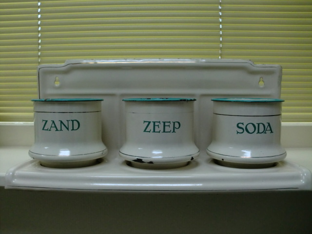 Dutch Sand-Soap-Soda